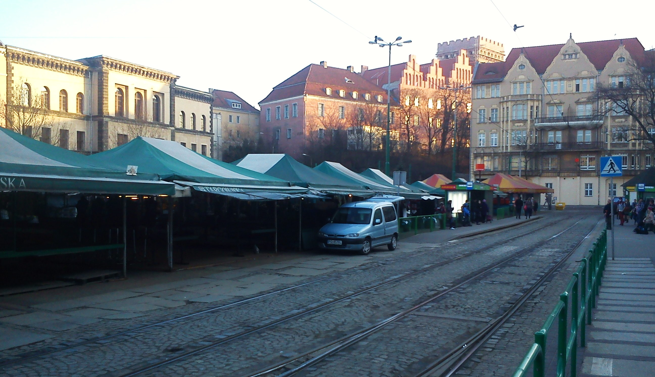 Wielkopolski Place and Royal Castle in Poznań.